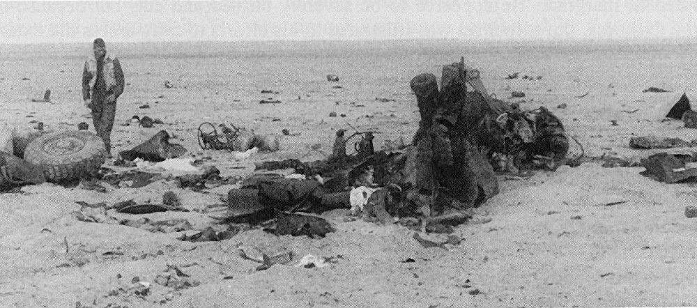 Destroyed LAV-AT by friendly anti-tank missile during the Battle of Khafji. That vehicle was killed by a tow missle fired from another lav-at from its own platoon. They were from 1st lai bn from camp pendleton,CA. They were attached to delta Co. Of 3rd lai bn. From 29 palms, ca. On that night.